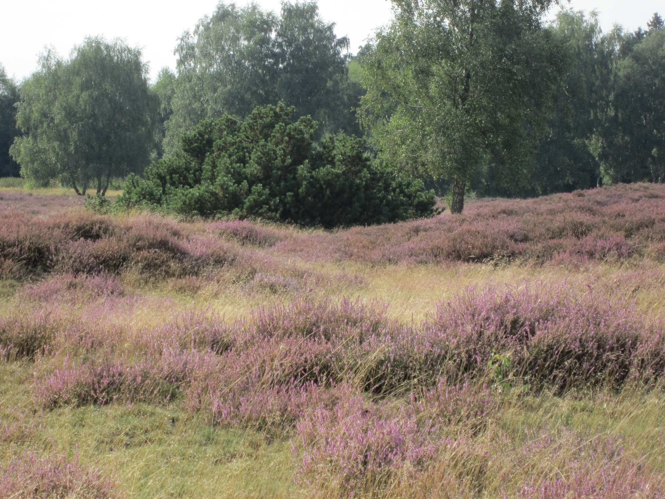 "Pestruper Gräberfeld" near Wildeshausen (Lower Saxony)